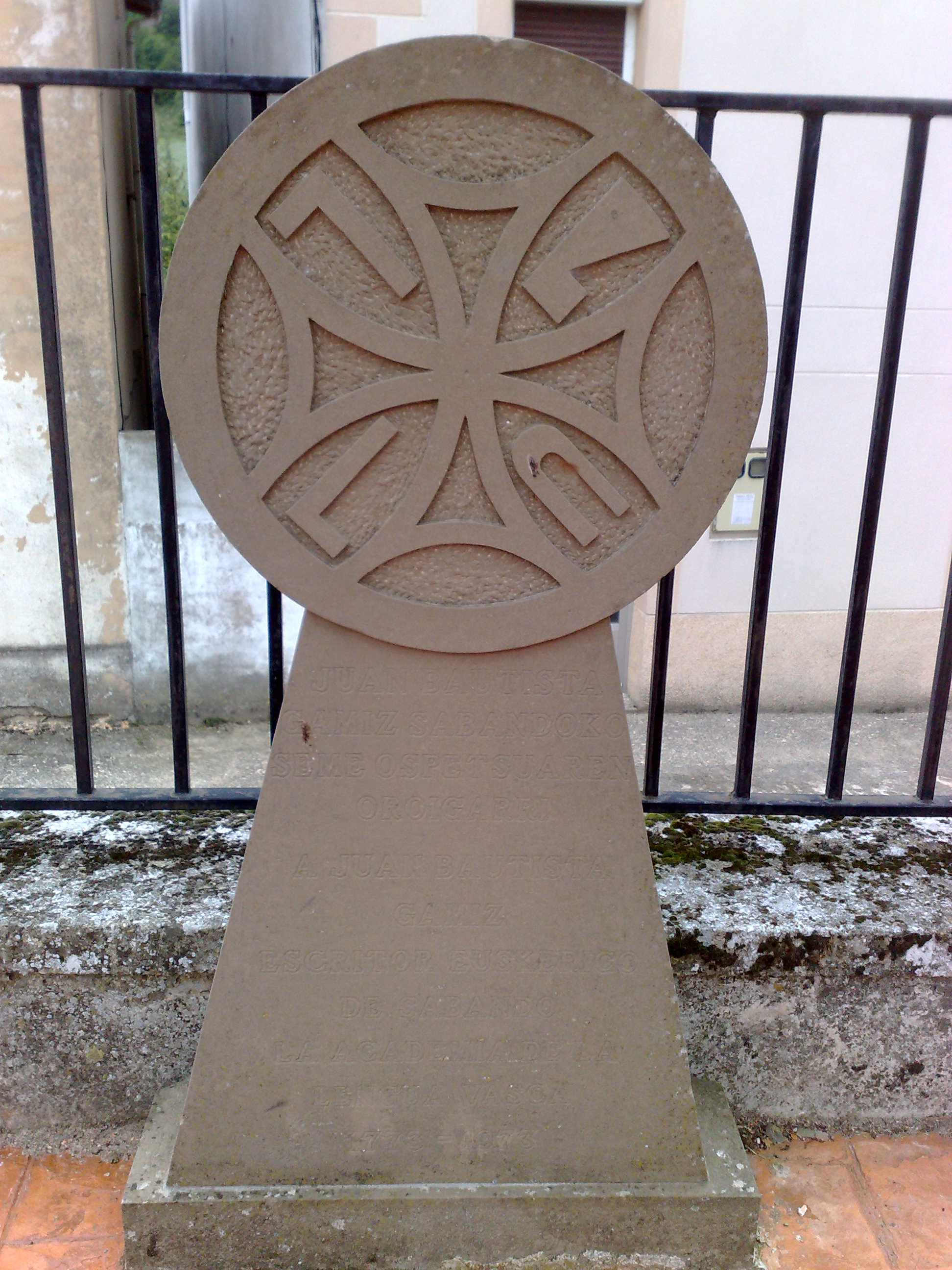 Monument honouring Basque language writer Joan Batista Gamiz, Sabando, Arraia-Maeztu, Araba, Basque Country.